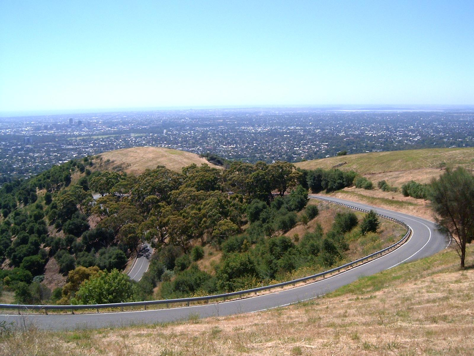 Hayward Drive leading up into Mount Osmond.